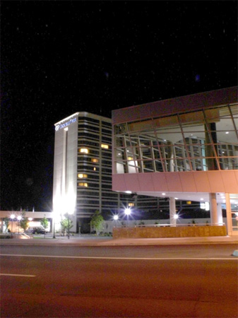 Photo of the Group Health Exhibit Hall along with the Doubletree Hotel in Spokane, Washington. Author, JDubman